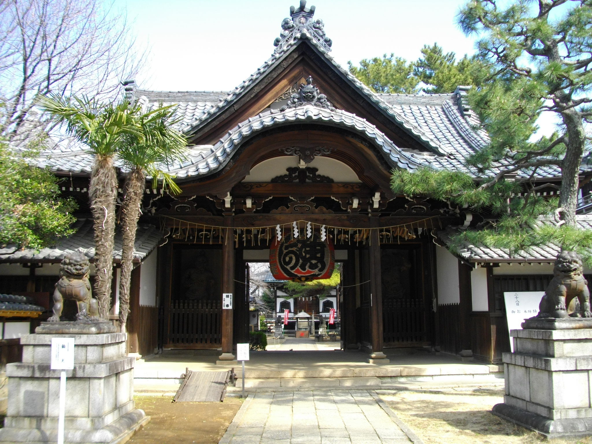 Setagaya-Kannonji